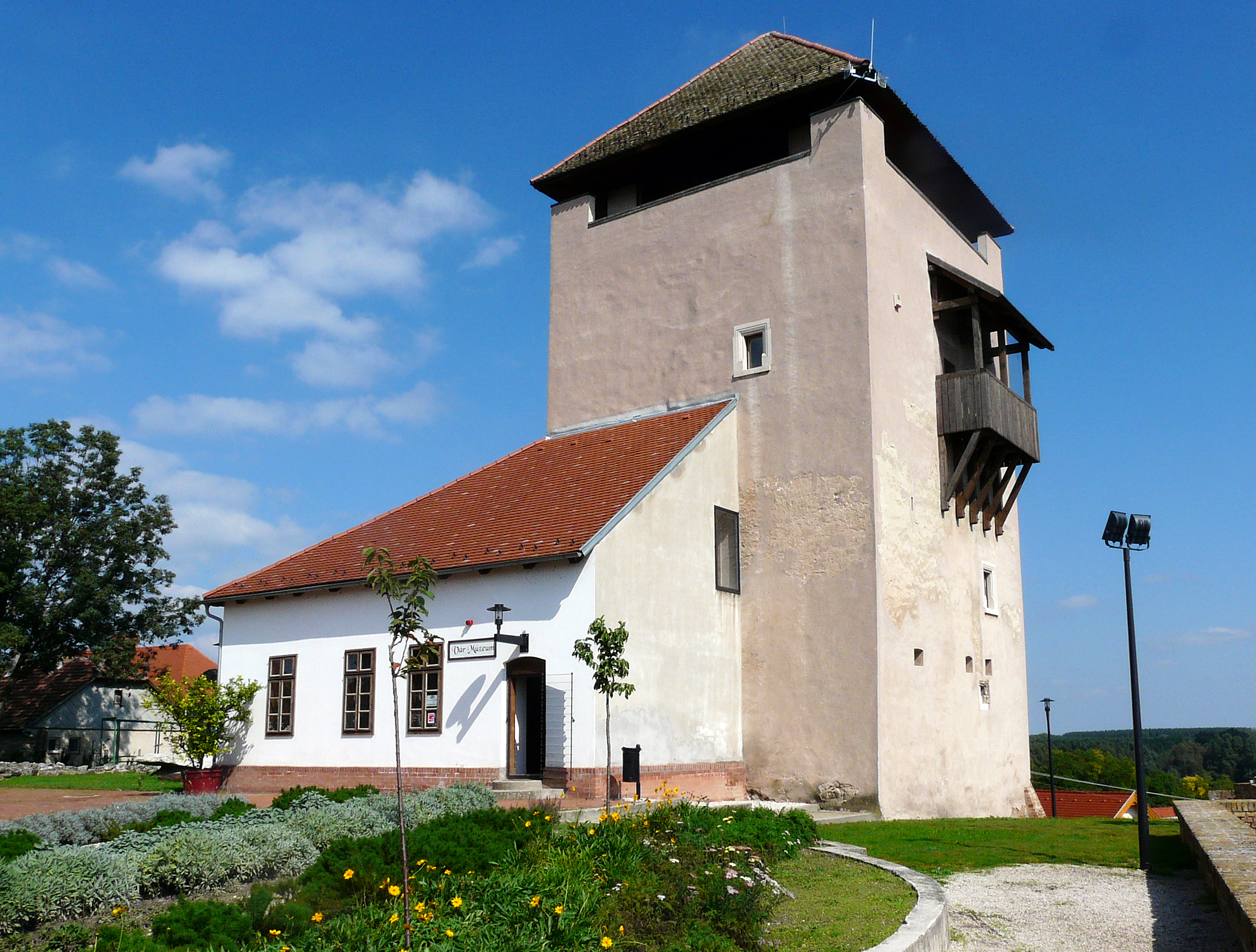 The Castle of Dunaföldvár (Hungary)